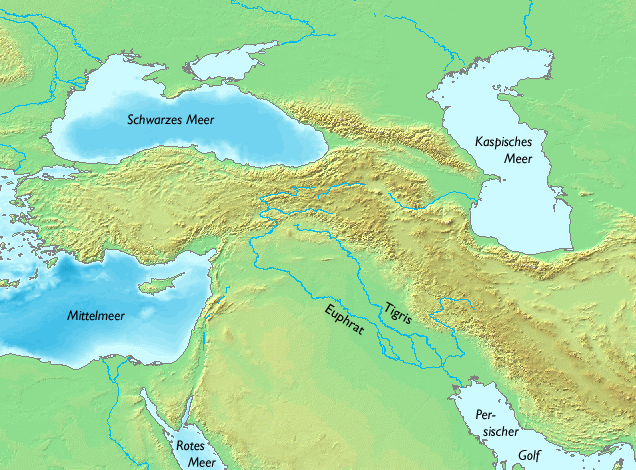 Region between the seas in the Middle East, where the geographical location of the mythological Garden of Eden is suspected German labelling